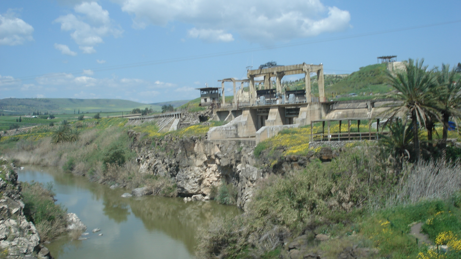 this chose Pinhas Rutenberg - Ken Mesopotamia stranger \"to build the first power station produced electricity by water and provided electricity to northern Israel to her room. Construction began on - and ended in 1927 - in 1932 and worked until 1948